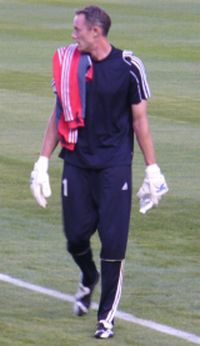 Greg Sutton during warm-ups before Toronto FC's inaugural match at Chivas USA.